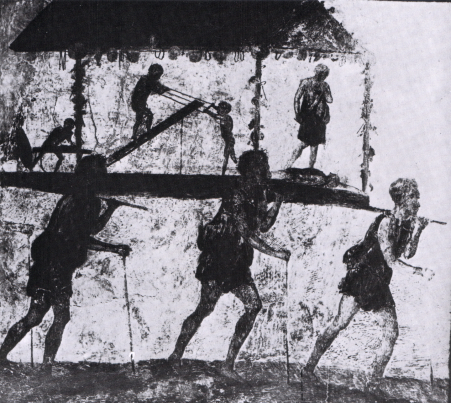 Fresco from the Bottega del Profumiere (Perfumer's Workshop) (VI, 7, 8), Pompeii.